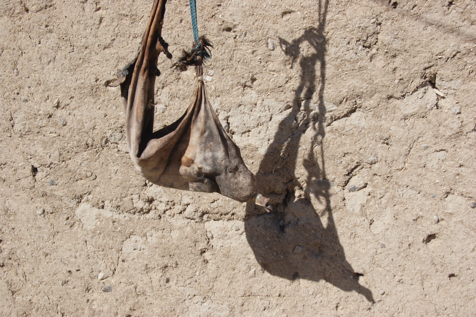 A Qirbah hanging in the courtyard of the Bedouin Manasir 'Abdallah Ahmad al-Hassan Abu Qurun'. From Mideimir in Dar al-Manasir, Northern Sudan. (c) GFDL David Haberlah (Homepage of David Haberlah, ) Commons:Category:Culture of Sudan